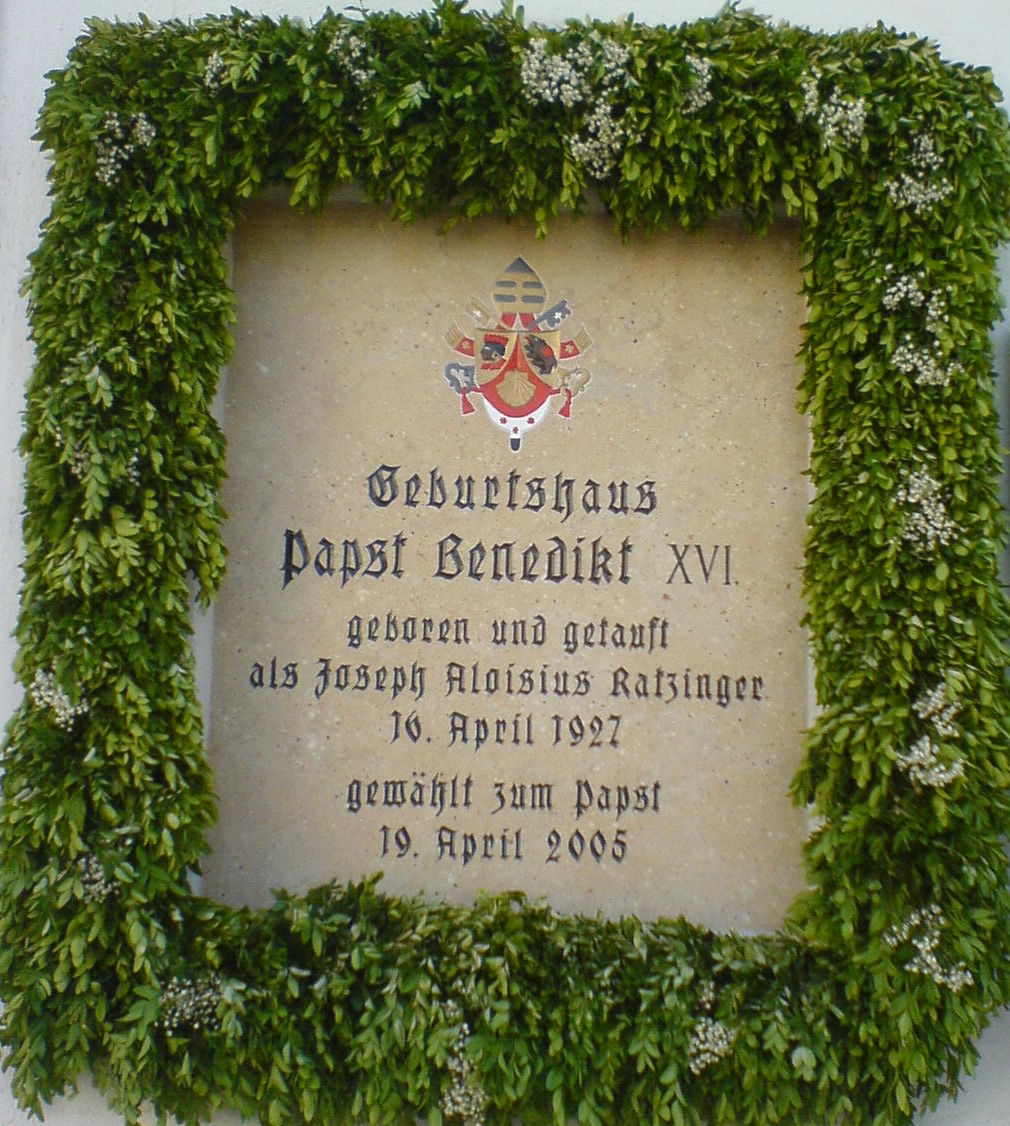 Marktl am Inn (South-East Bavaria), new inscription at the house where pope Benedict XVI. was born in 1927